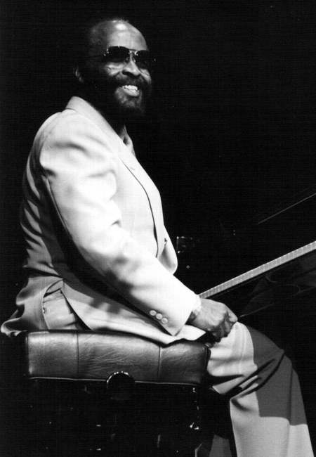 American jazz pianist and composer Junior Mance in Paris, France